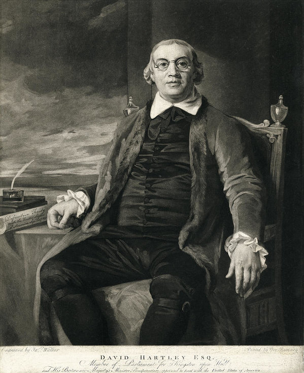 David Hartley, English Diplomat. Painted by George Romney, engraved by James Walker, published in The pictorial field-book of the Revolution (1859).